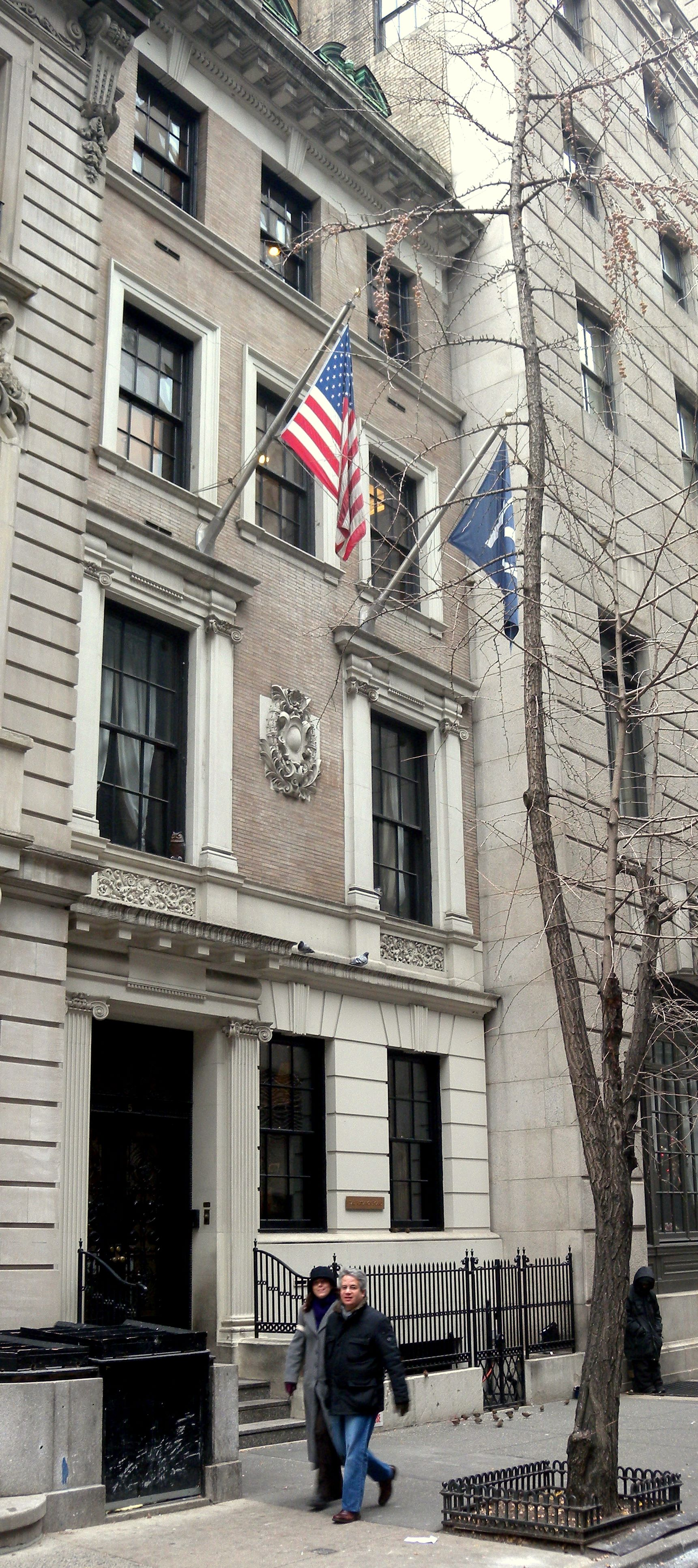 Looking northeast at 5 West 54th Street, former Moses Allen and Alice Dunning Starr House, now The Research Board, on a cloudy day. See also File:Moses Allen Starr.jpg.